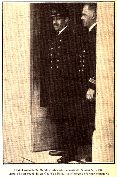 President of Portugal José Mendes Cabeçadas in maio 1926.